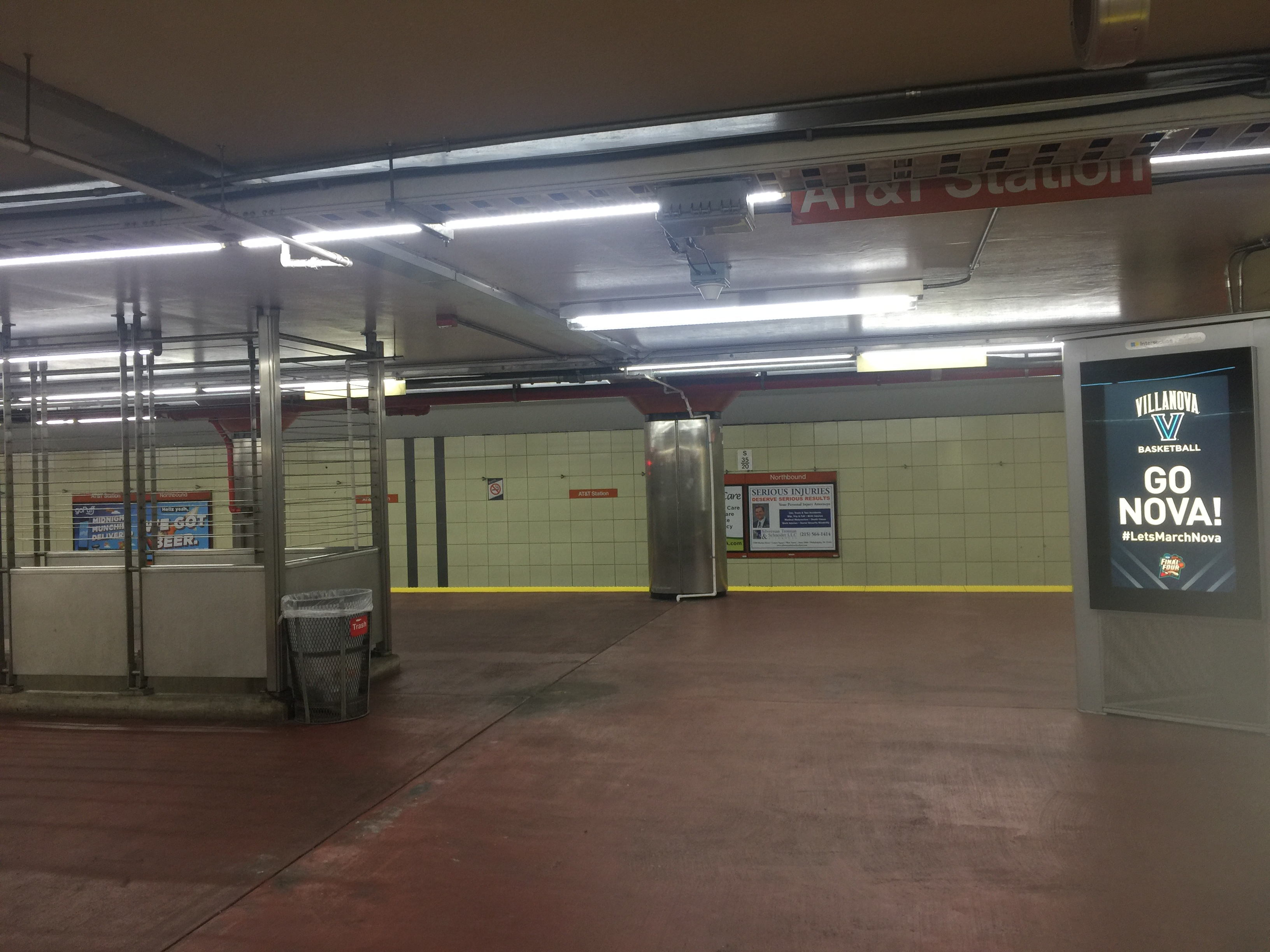 AT&T Station